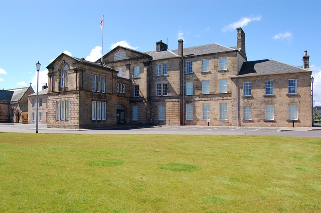 University of the Highlands and Islands, Executive Office, Inverness